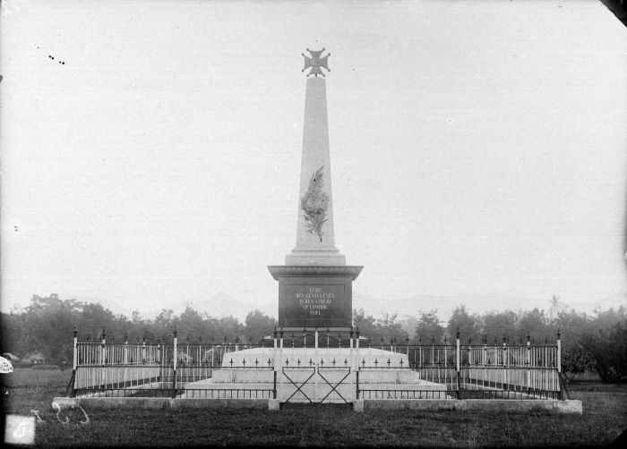 The Lombok Monument